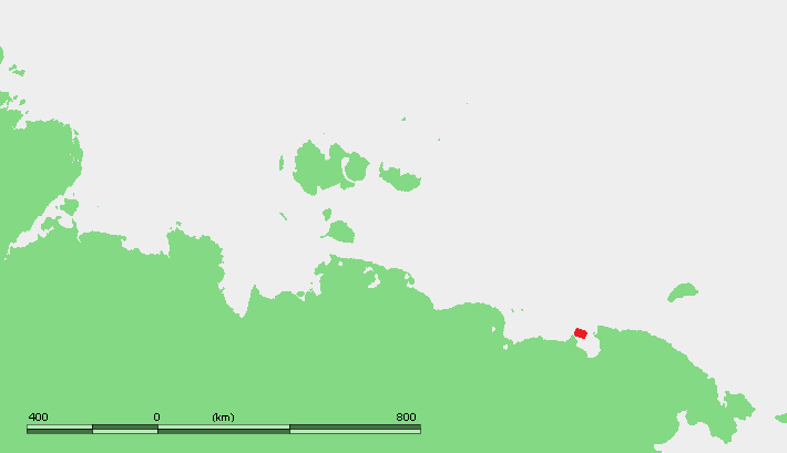 location map